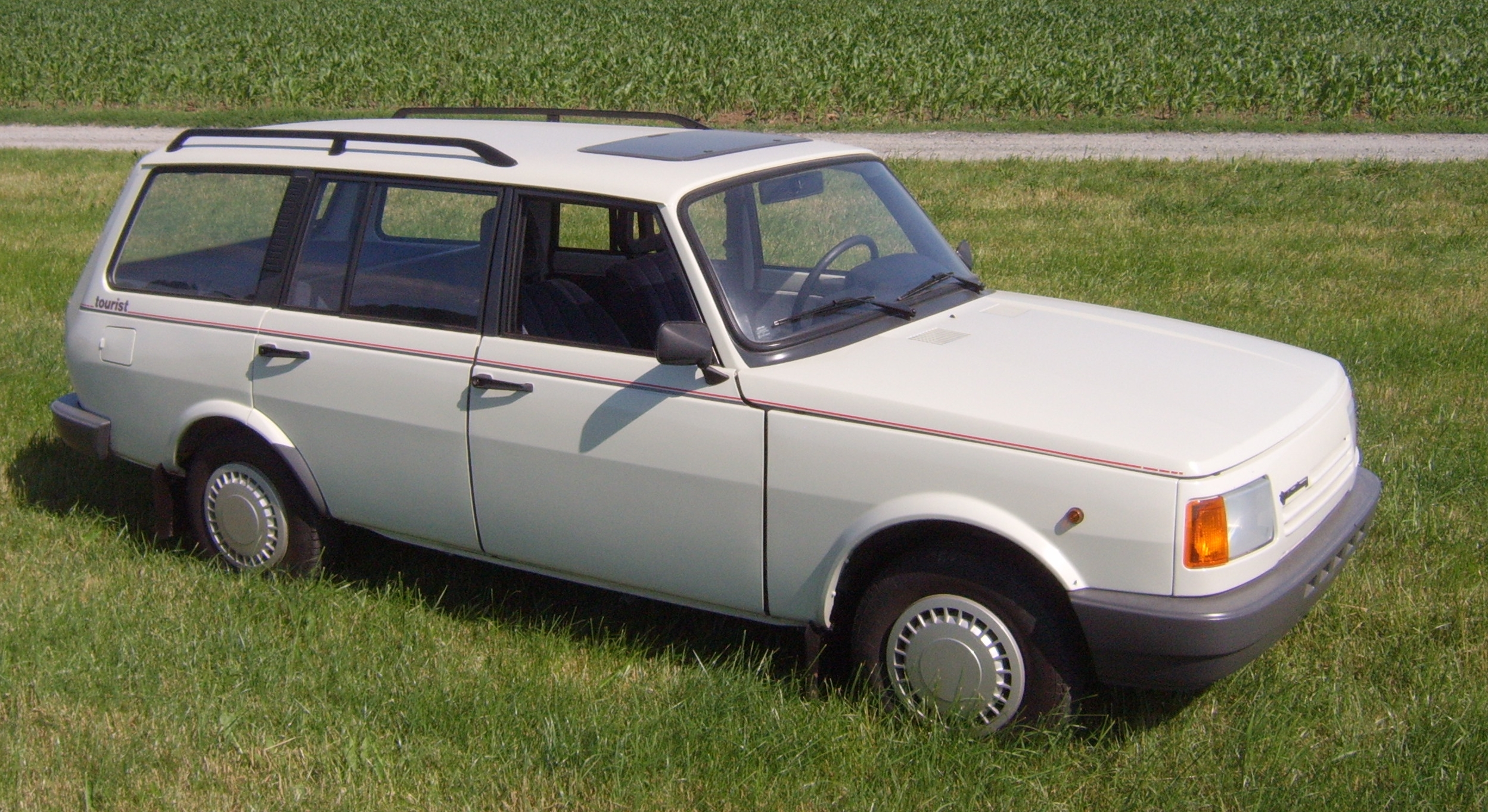 The concept car Wartburg 1.3 Tourist L, tuned by Karmann.